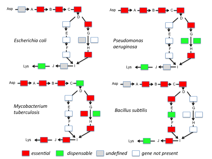 A comparison of the Lysin biosynthesis pathway via diaminopimelate (DAP) pathway in E. coli, M. tuberculosis, P. aeruginosa and B. subtilis. Based on a figure in Gerdes et al. (2006) Current Opinion in Biotechnology 17:448–456